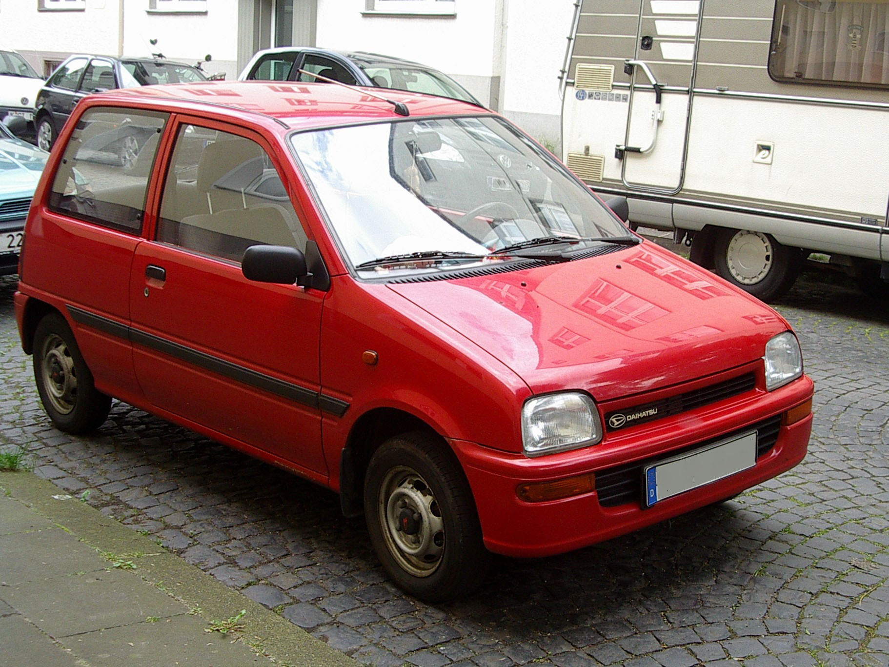 Daihatsu Cuore L201 facelift